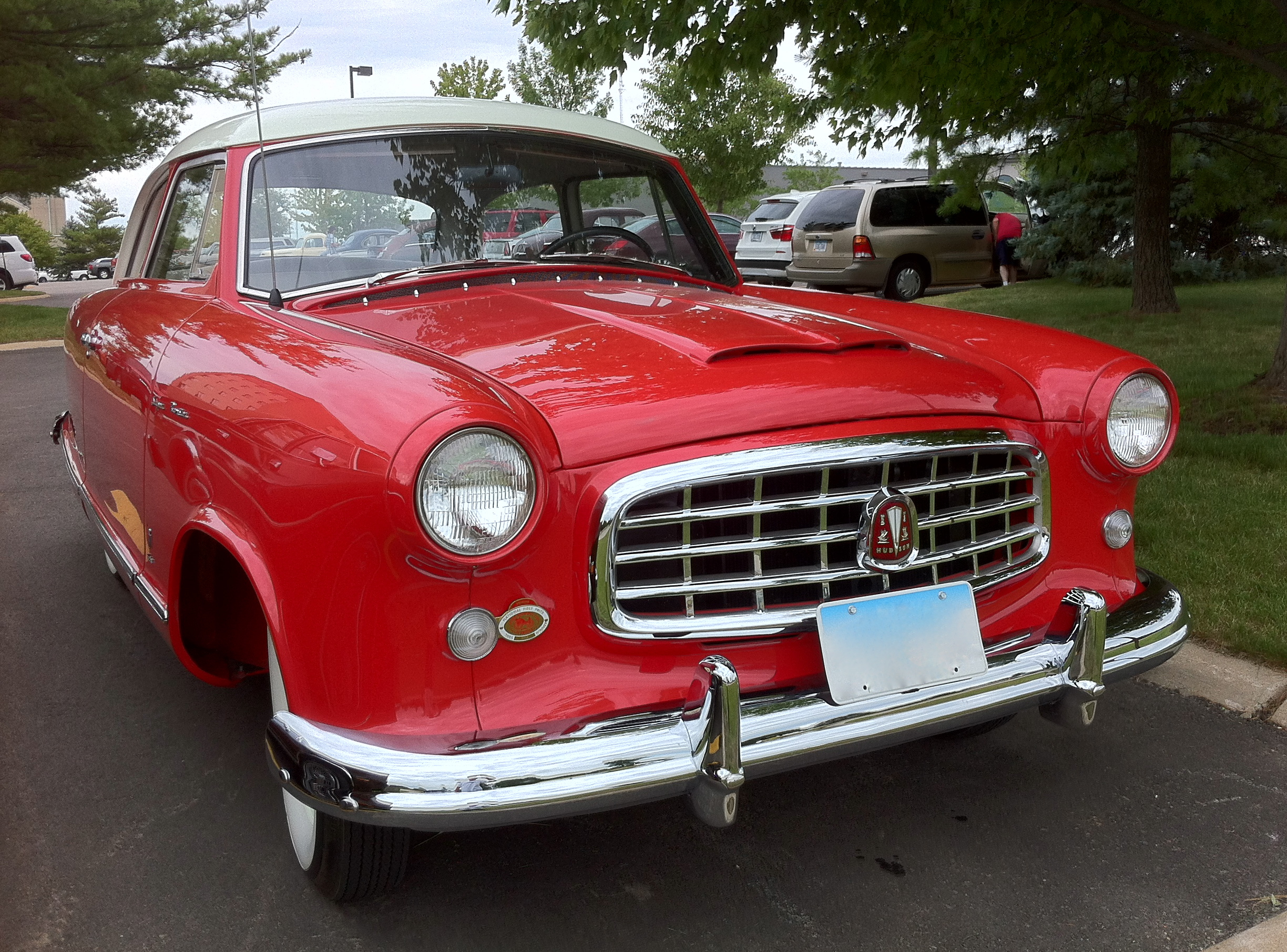 1955 Hudson Rambler 2-door sedan, a compact-sized car made by American Motors Corporation (AMC). An identical car was also marketed through Nash dealers (as the Nash Rambler). Picture taken at the 2012 Antique Automobile Club of America (AACA) Central Spring meet in Cedar Rapids, Iowa.